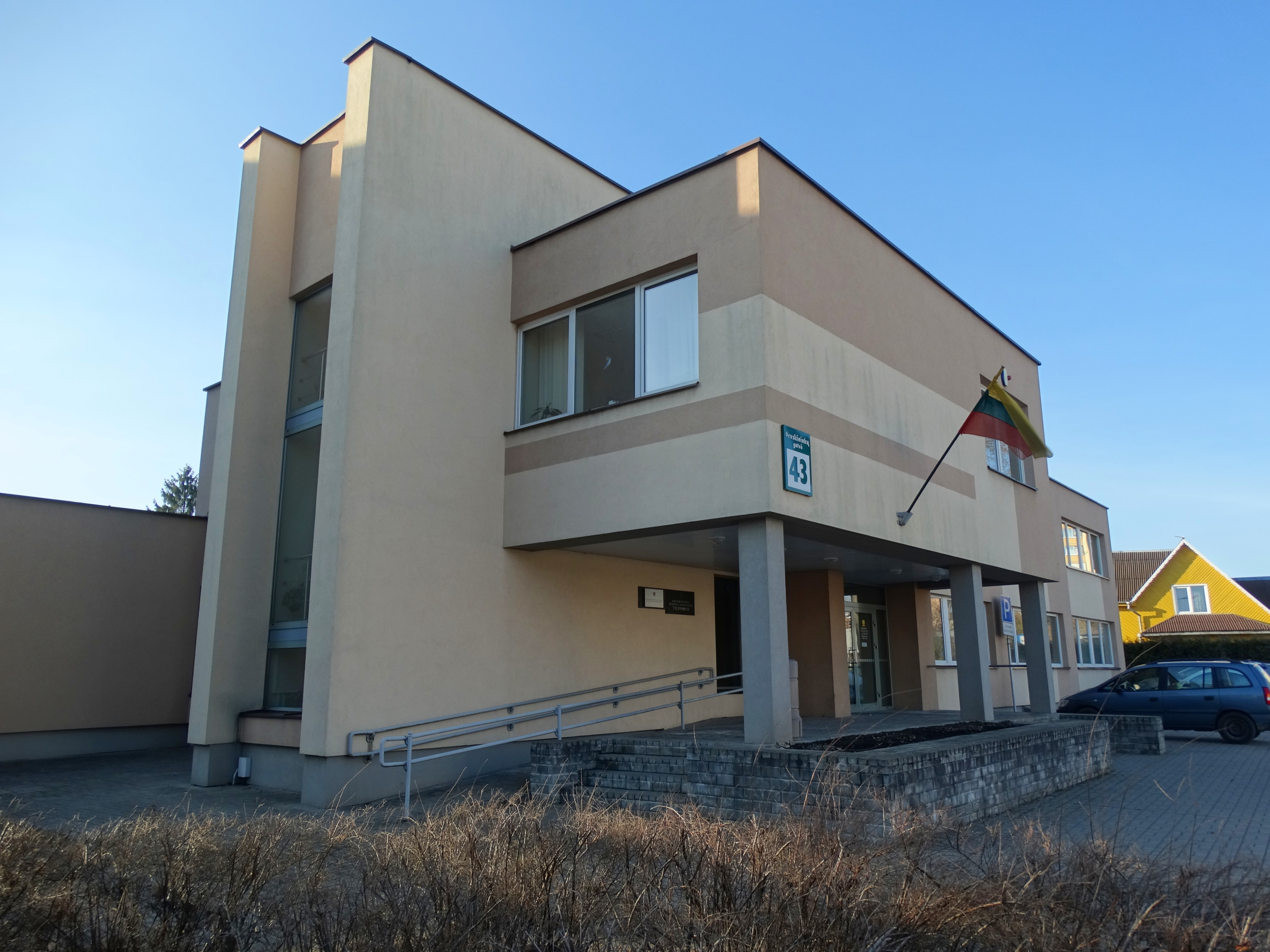 Court, Druskininkai, Lithuania